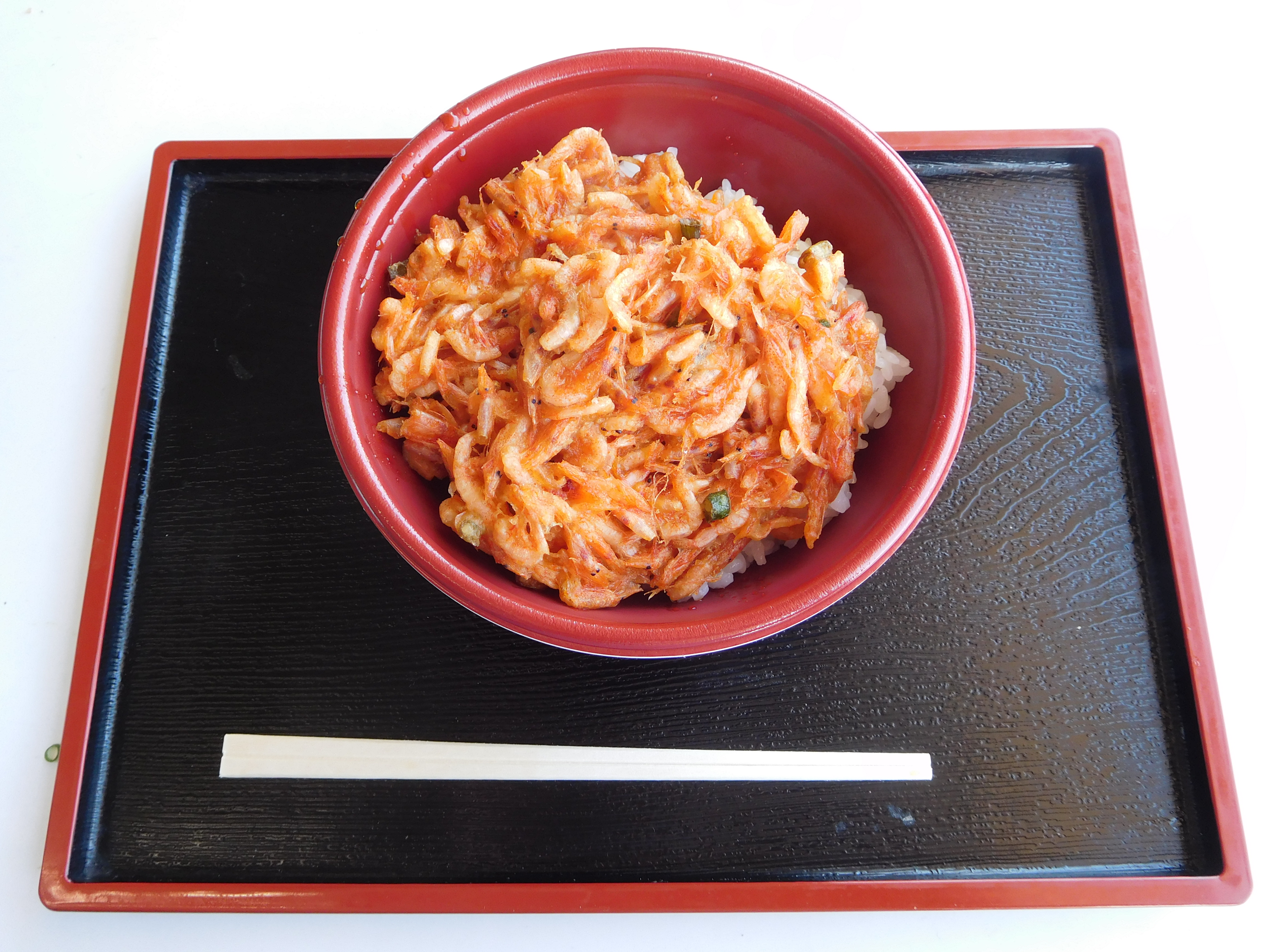 This is Sergia lucens (Sakura shrimp) Kakiage rice bowl cooked by Hama-no-Kakiage-Ya in Shimizu-ku, Shizuoka city, Shizuoka prefecture, Japan.